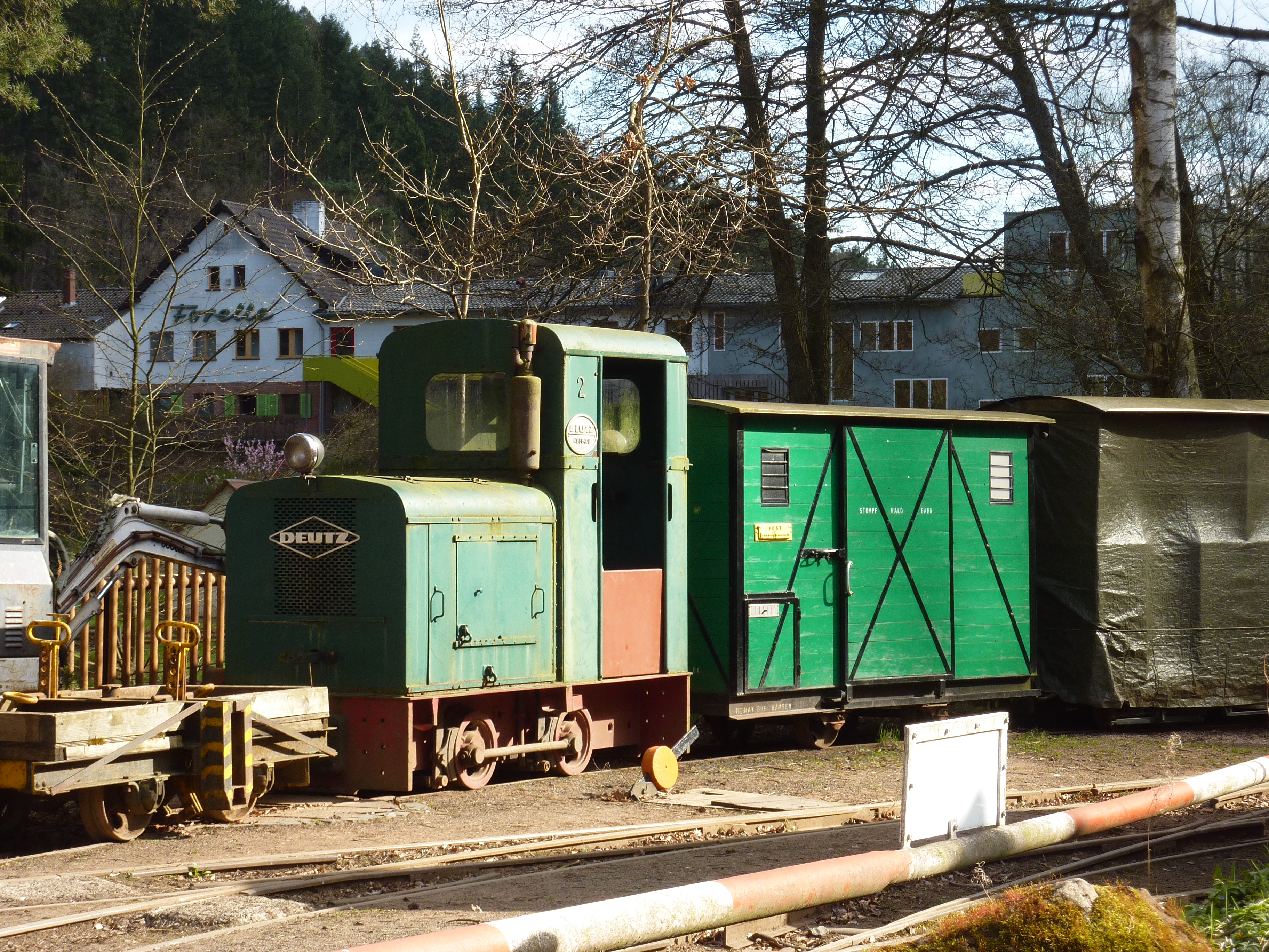 Deutz narrow gauge locomotive No. 56406 on the Stumpfwaldbahn. This locomotive previously worked at the Tonwaren Industrie Wiesloch brickworks.